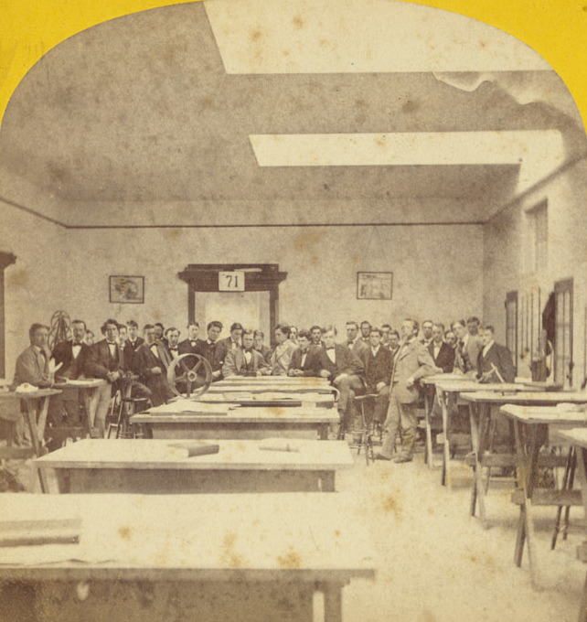 File name: 06_11_000068 Title: Drawing room, Institute of Technology Alternative title: Creator/Contributor: Allen, E. L. (Edward L.) (photographer) Created/Published: Date issued: Date created: 1860-1890 (approximate) Physical description: 1 photographic print on stereo card : stereograph Genre: Stereographs Subjects: Universities & colleges Notes: Title from handwritten text on verso.; Class 71 Series: Location: Boston Public Library, Print Department Rights: No known restrictions